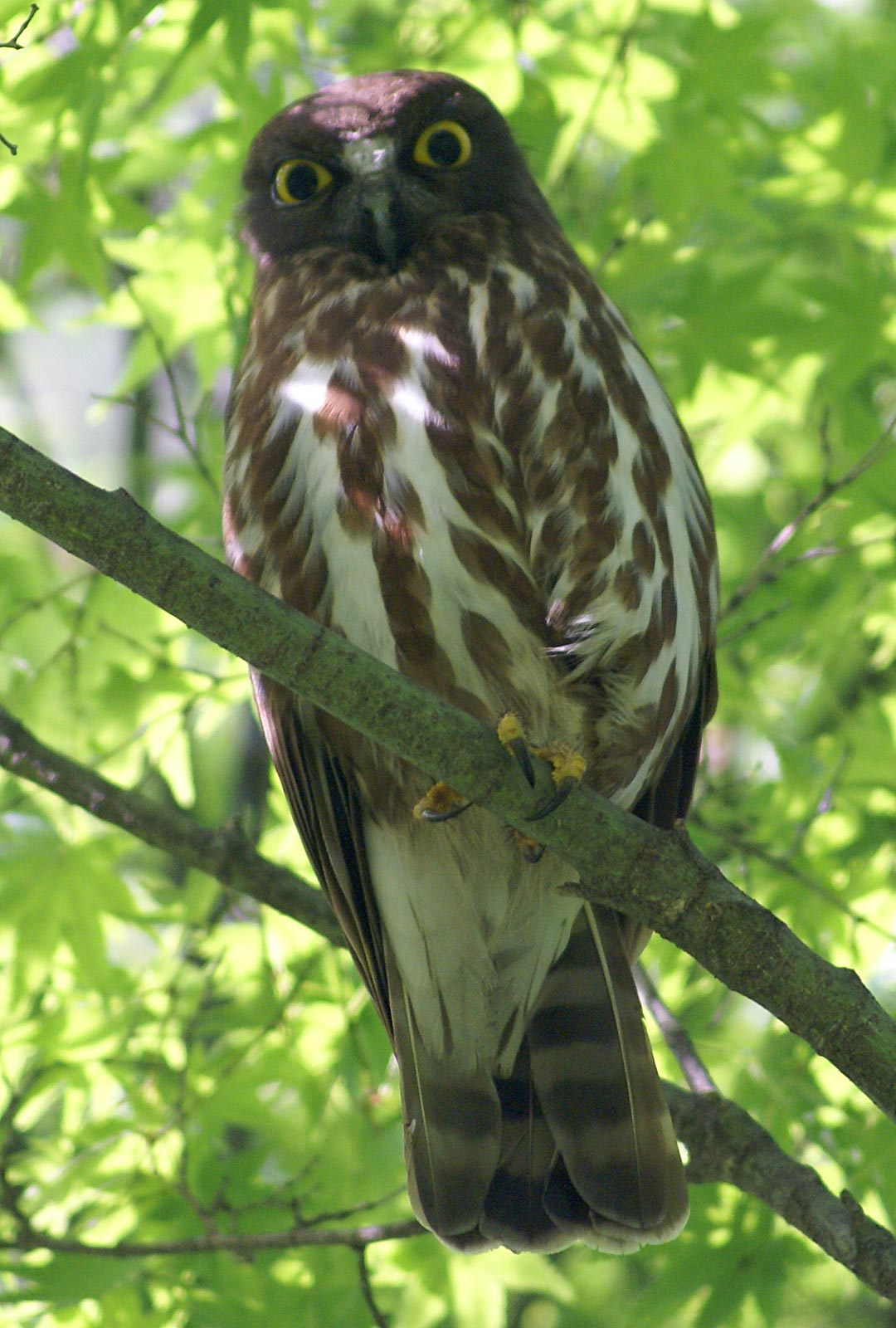 Northern Boobook Ninox japonica, Japan